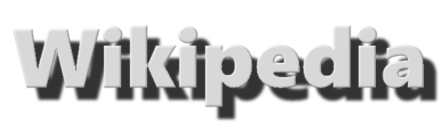 Image of Digital on-screen graphics